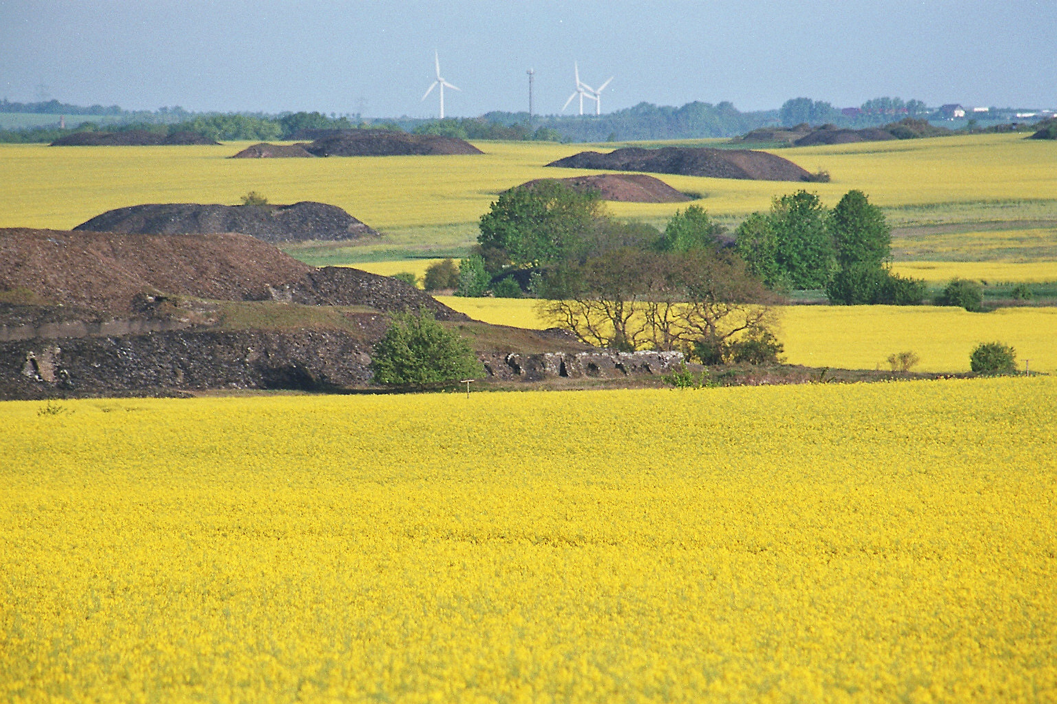 Welfesholz (Gerbstedt), dumps in the fields This is a photograph of an architectural monument. 40059